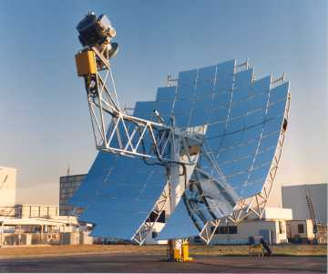 Solar Stirling engine — solar power in the Mojave Desert, San Bernardino County, California. Credits